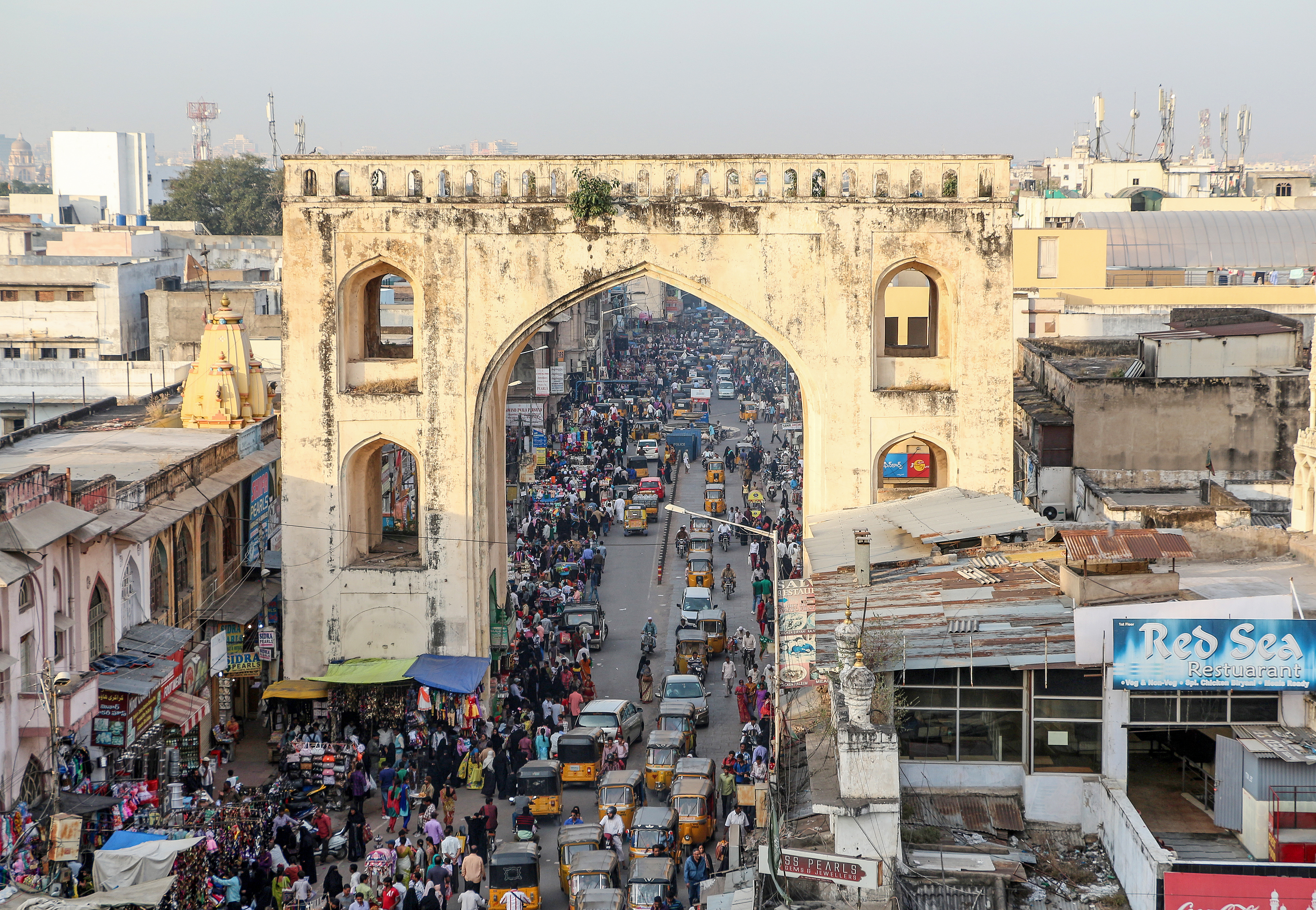 The Char Kaman seen from the Charminar, Hyderabad, India